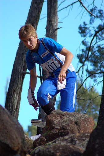 Timo Sild (EST) at Junior World Orienteering Championships 2007 -- Long distance